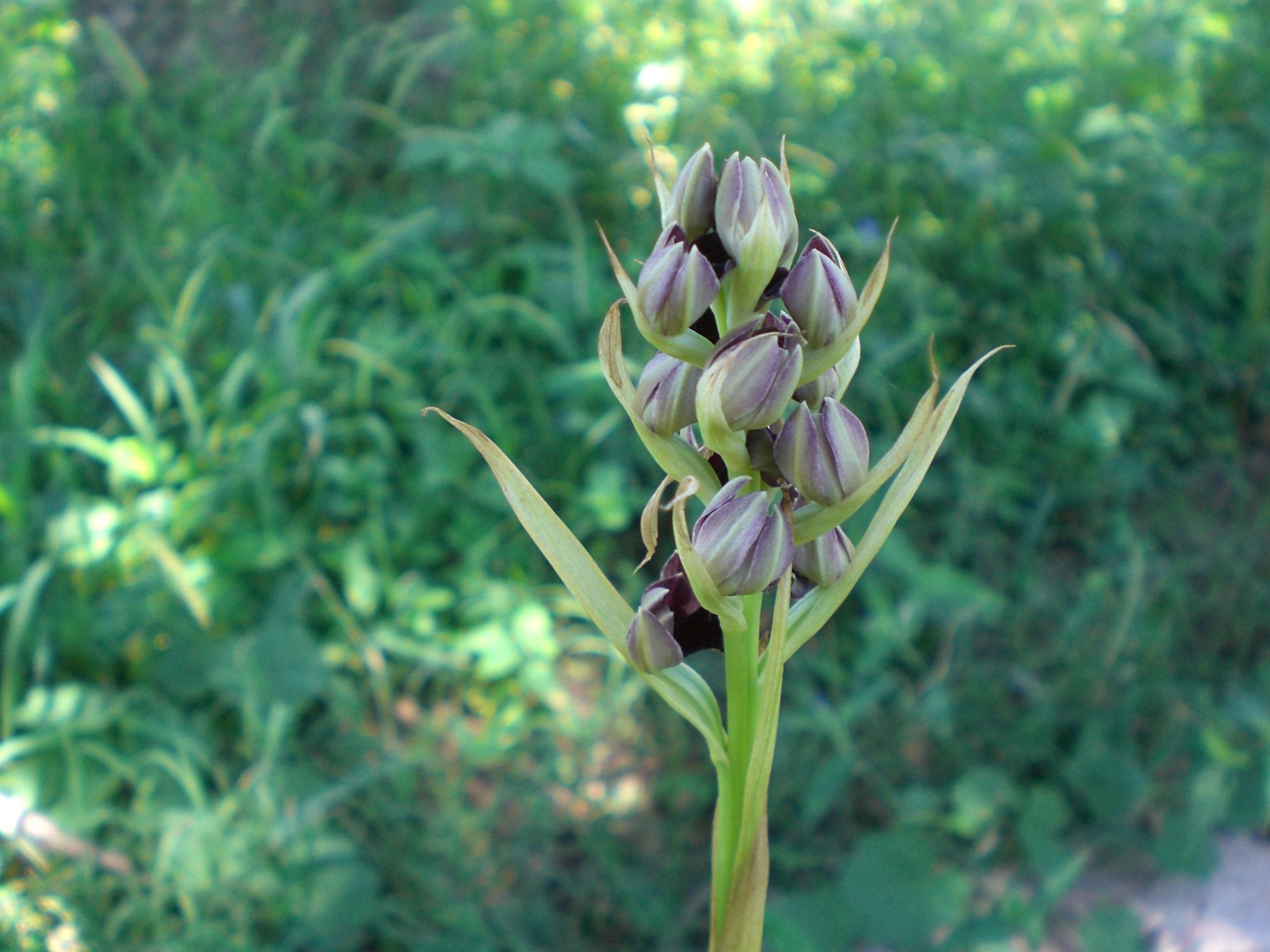 Inflorescence of Pteroglossaspis ruwenzoriensis (Orchidaceae).